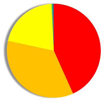 Expressed as a pie chart in the Tokyo gubernatorial election in 1979, the number of votes for each candidate.